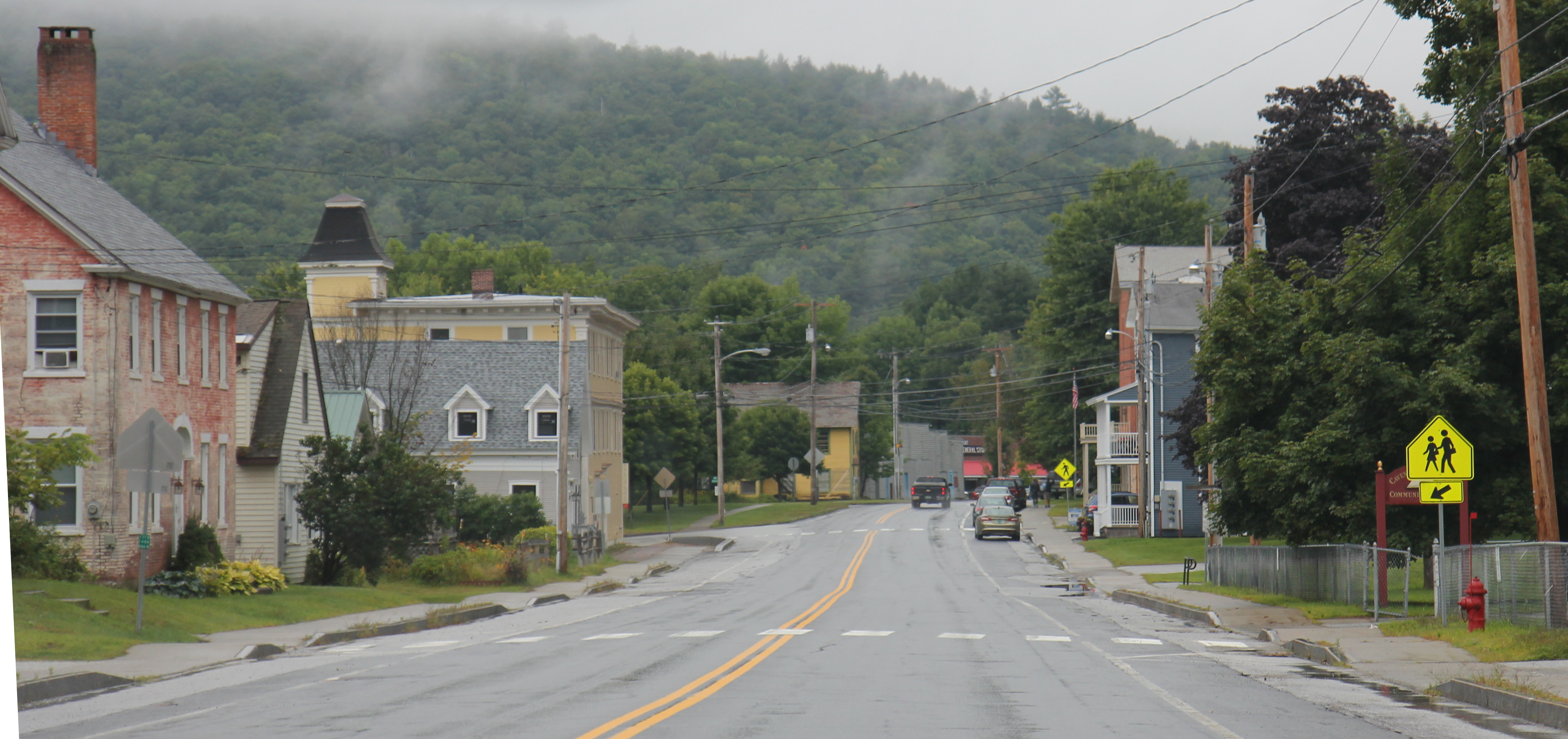 Downtown Cavendish, Vermont on Vermont State Highway 131